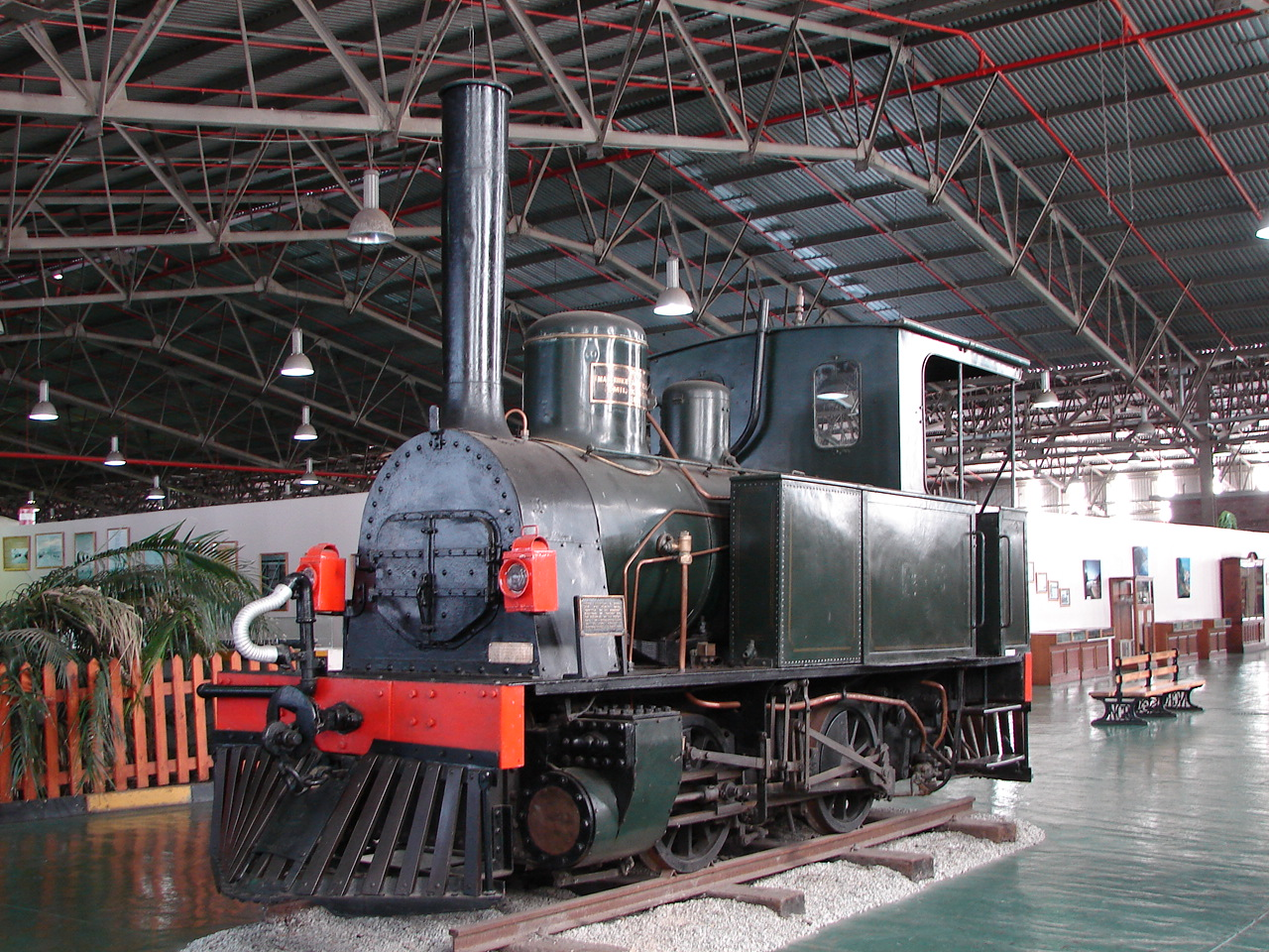 NZASM 14 Tonner no. 1 (0-4-0T)Location: George, Western Cape